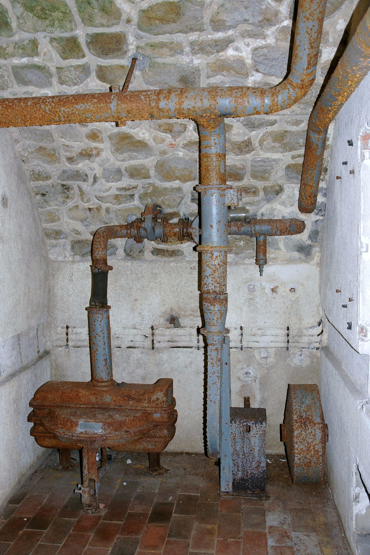 Part of the ventilation system inside of the shelter of Veldenstein Castle, Neuhaus, Germany.